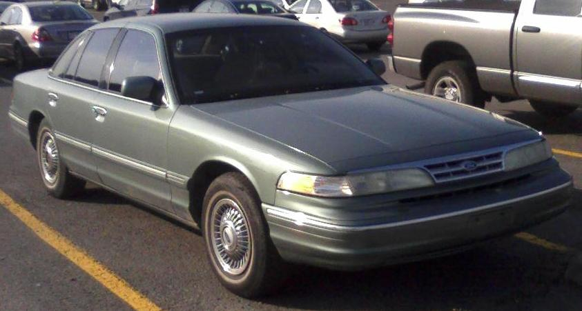 1995-1997 Ford Crown Victoria photographed in Montreal, Quebec, Canada.